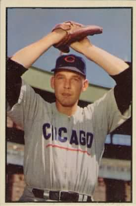 1953 Bowman Color baseball card of Paul Minner of the Chicago Cubs #71. PD-not-renewed.